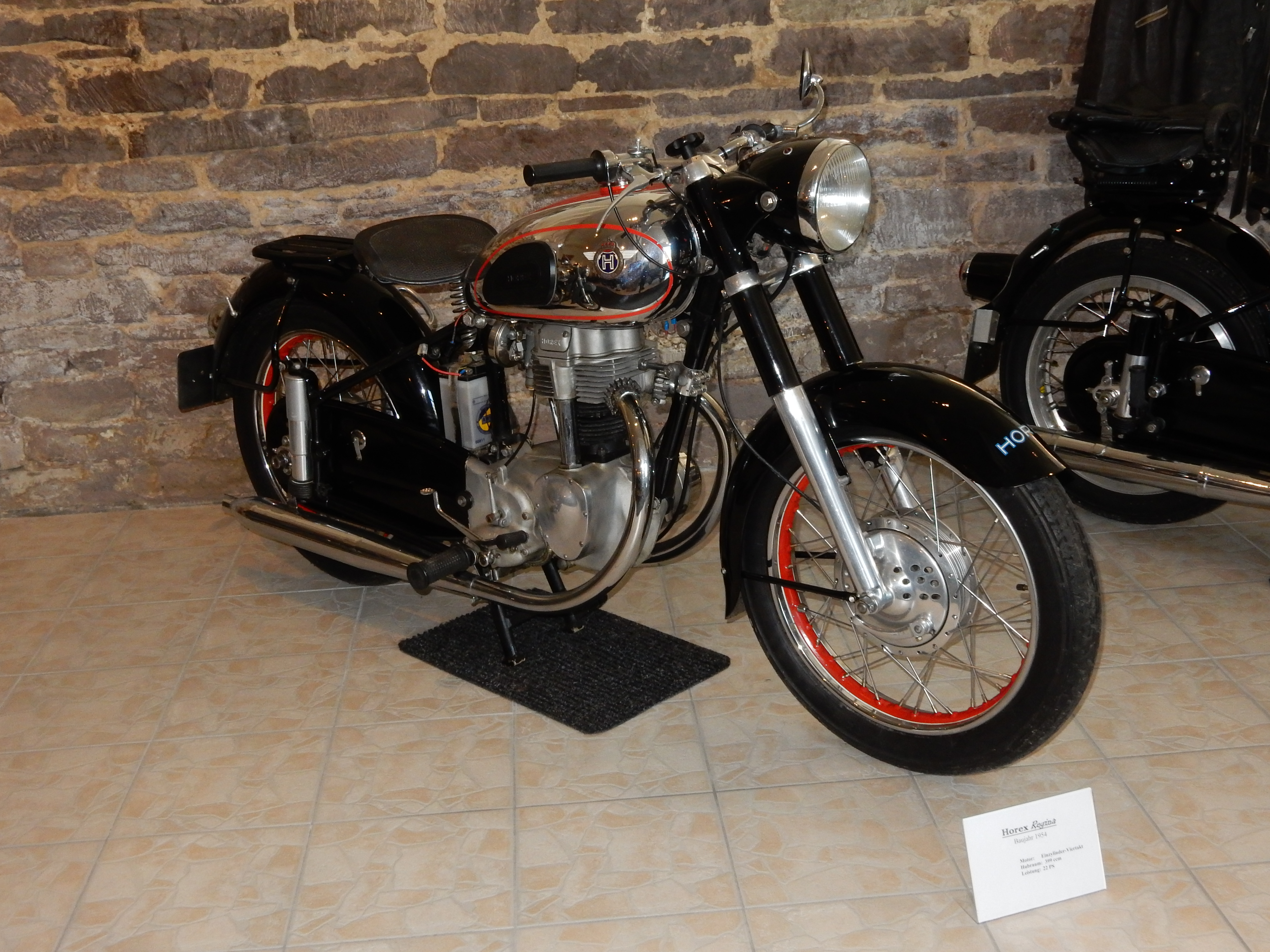 1954 Horex Regina 400 cc